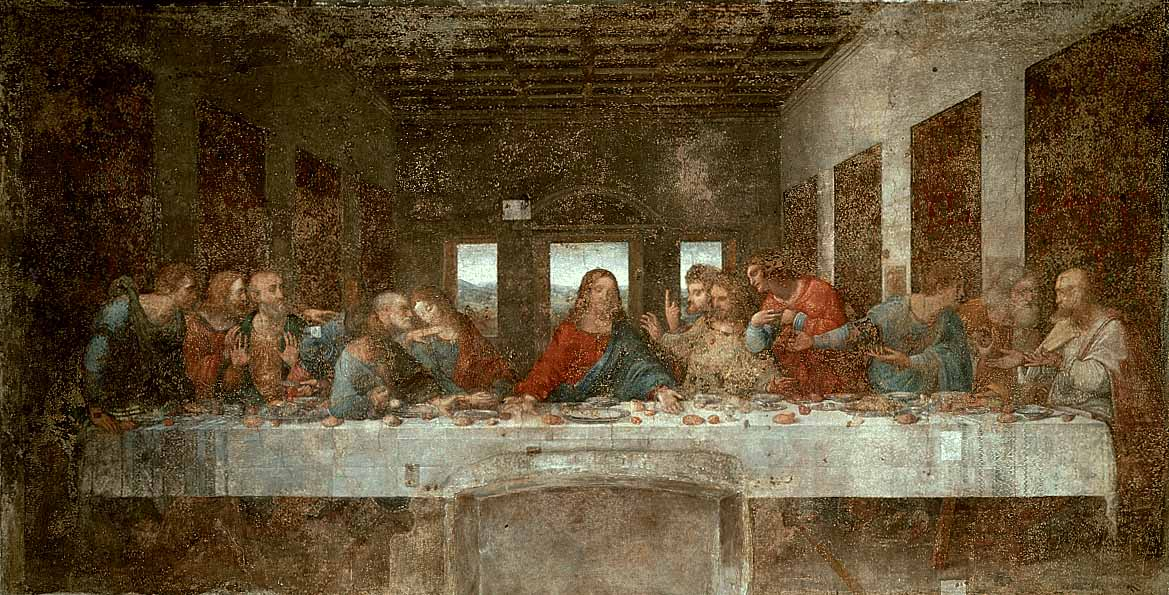 The Last Supper, showing Jesus, at the center, saying to his disciples, "One of you shall betray me" One disciple is painted in darkness. His face is in the shadow of another, and he leans back, nervously holding a bag. This disciple, Judas, is the third face to the left of Jesus. Also, the point in perspective in this painting is the head of Jesus. The three windows may represent the Trinity with the arch above the center window representing a halo over Christ.